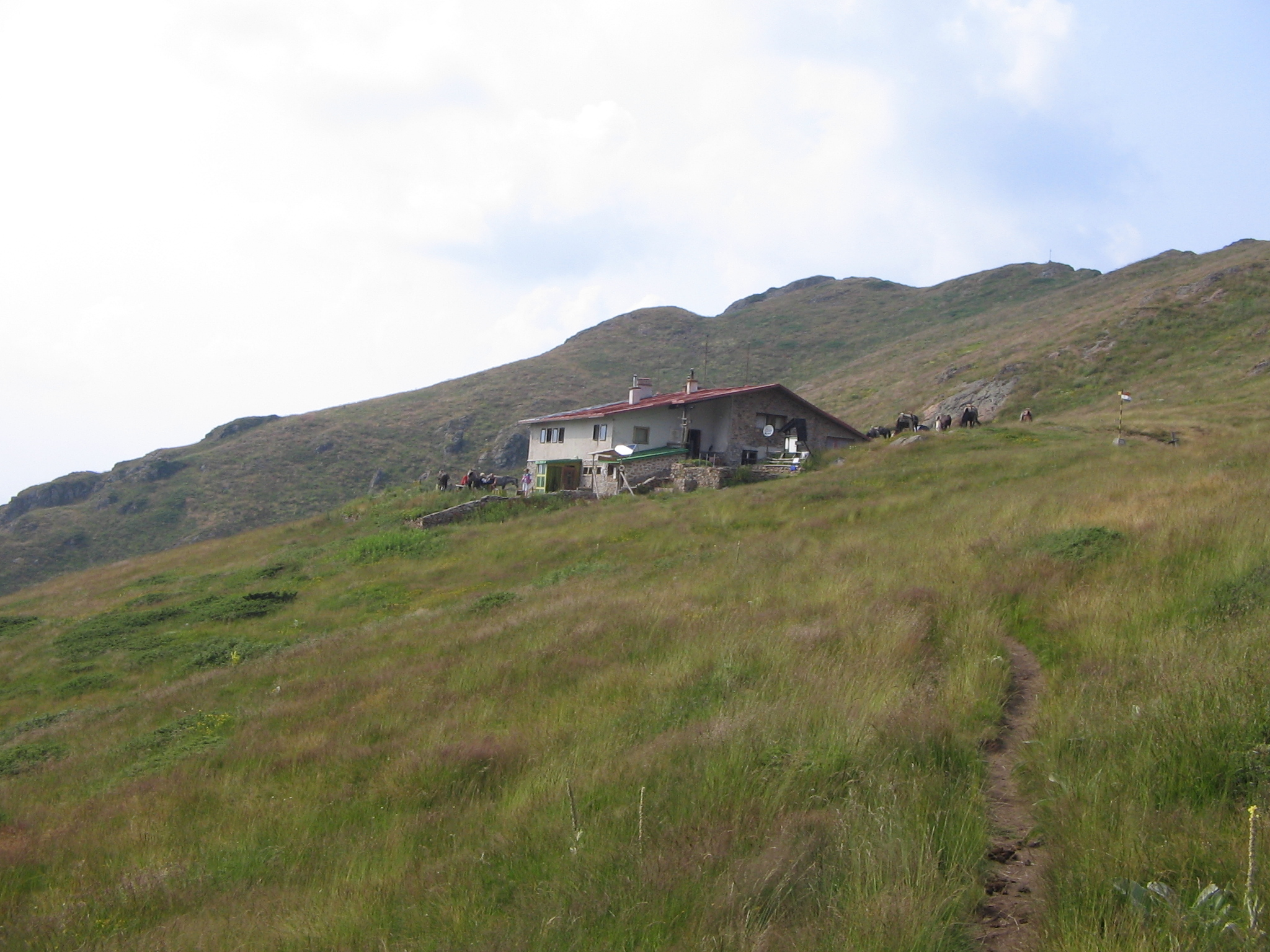 Touristic hut "Echo" in Star planina, 1675 meters above sea level.